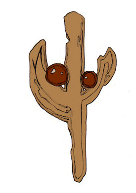 The Proxies Pendant